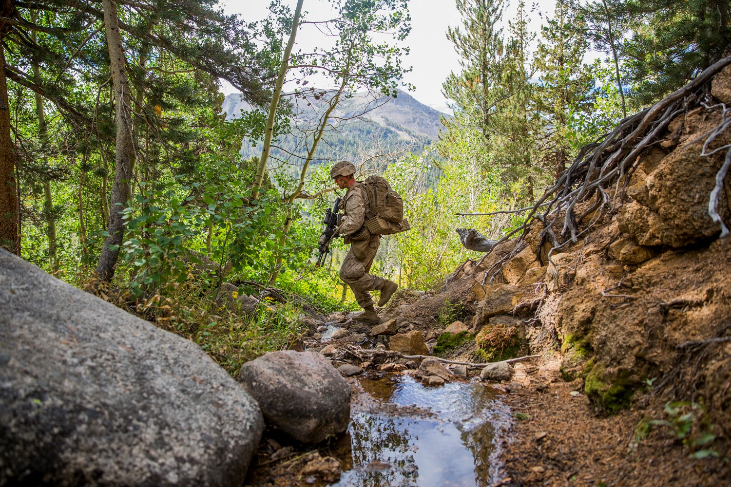 Camp Pendleton, CA - U.S. Marine Lance Cpl. Jona Moore tactically makes his way through the mountainous terrain with his squad during Mountain Exercise 2014 aboard Marine Corps Mountain Warfare Training Center in Bridgeport, Calif., Aug. 29, 2014. Moore is a team leader with 3rd Platoon, Lima Company, 3rd Battalion, 1st Marine Regiment. Marines with 3rd Battalion, 1st Marine Regiment will become the 15th Marine Expeditionary Unit’s ground combat element in October. Mountain Exercise 2014 develops critical skills the battalion will need during deployment.